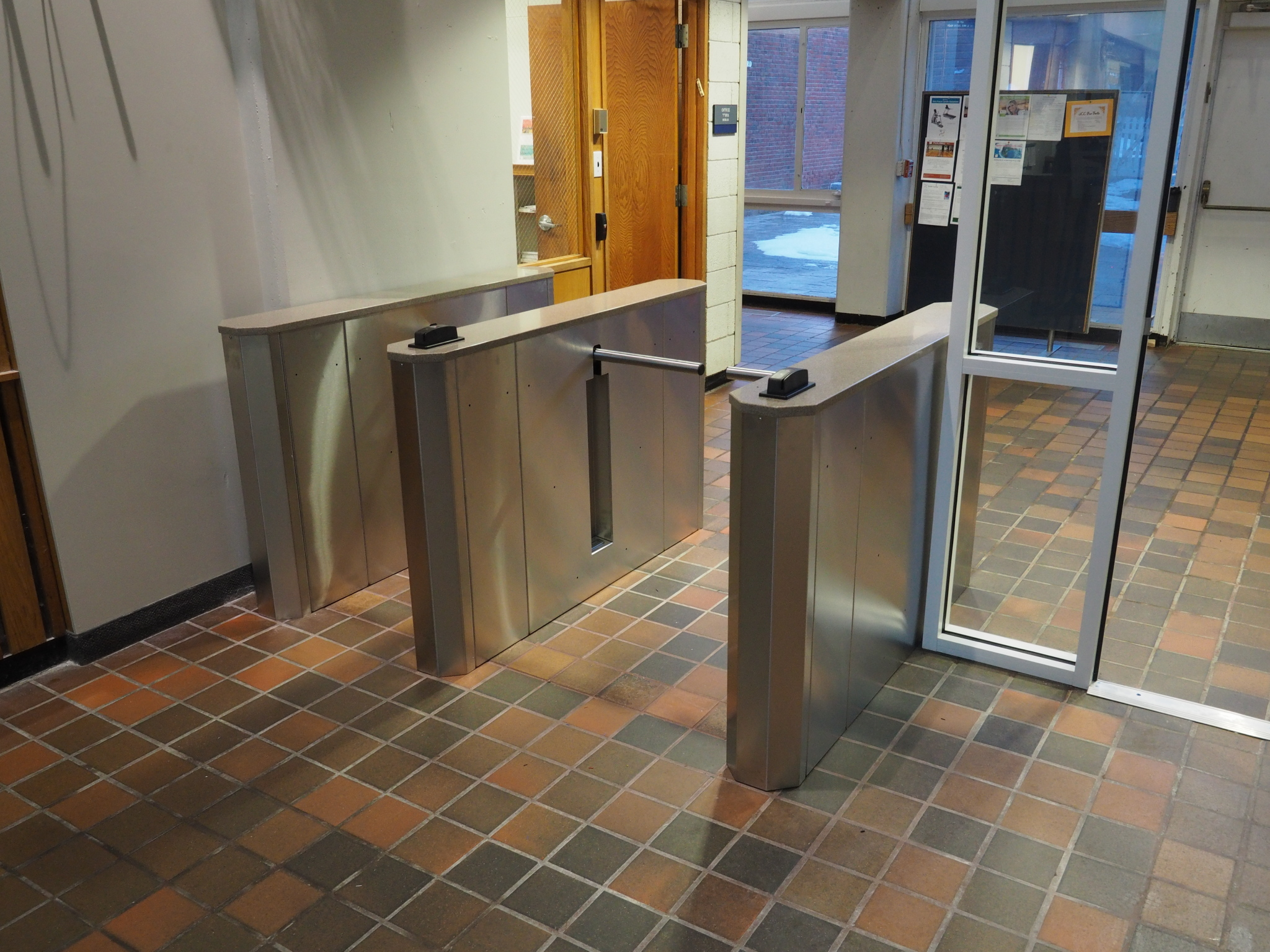 Access control turnstiles made by Q-Lane Turnstiles.